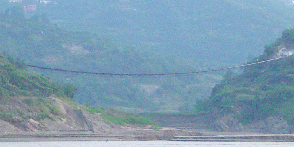 Simple_suspension_bridge.jpg This crosses a tributary stream of the Yangtze River (Chang Jiang). Picture taken in the Three Gorges region before flooding by the Three Gorges Dam. Image and upload by User:Leonard G..